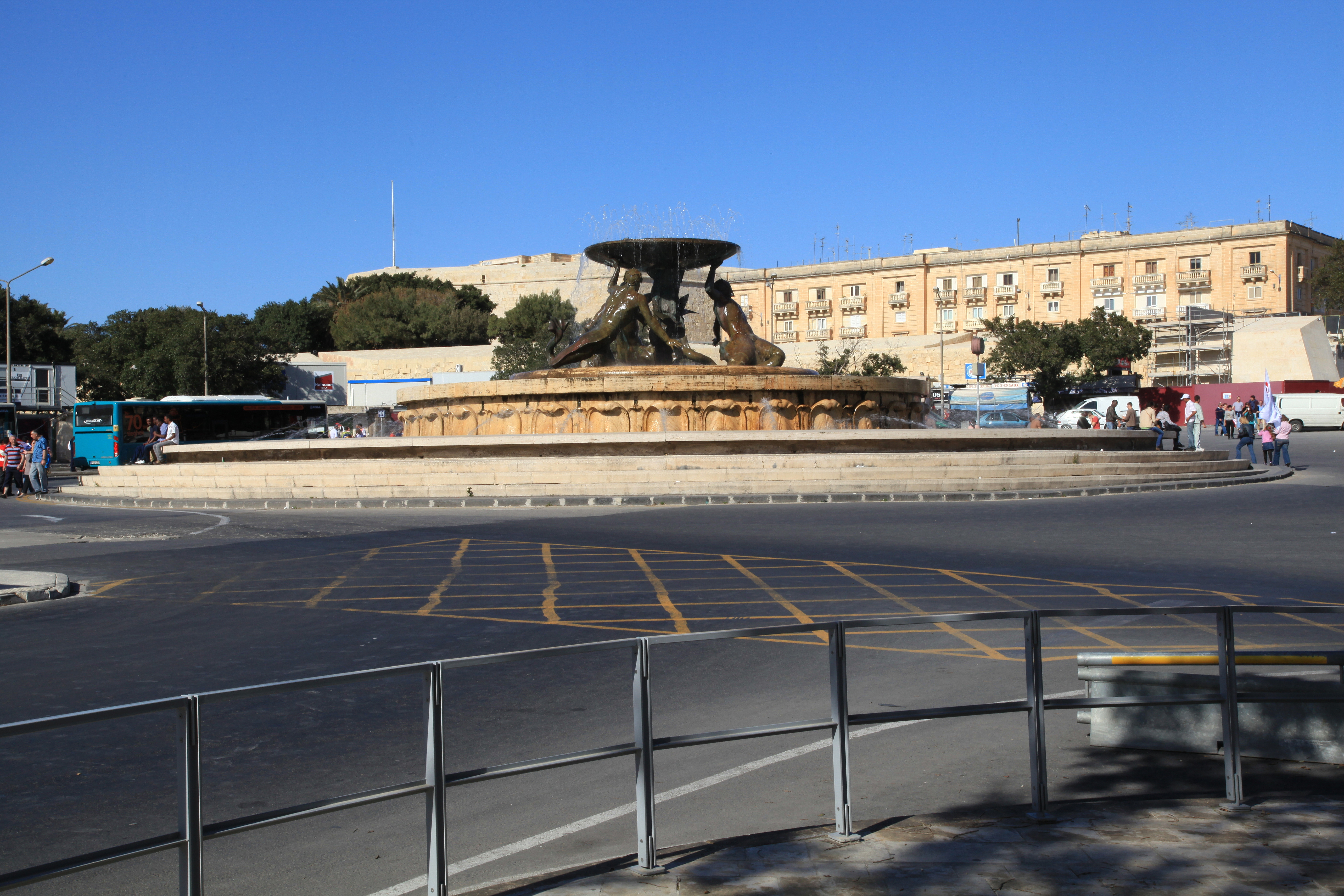 Triton Fountain at Vjal Nelson in Valletta, Malta